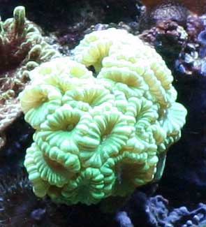 Candy cone coral Caulastrea sp. in a home reef tank